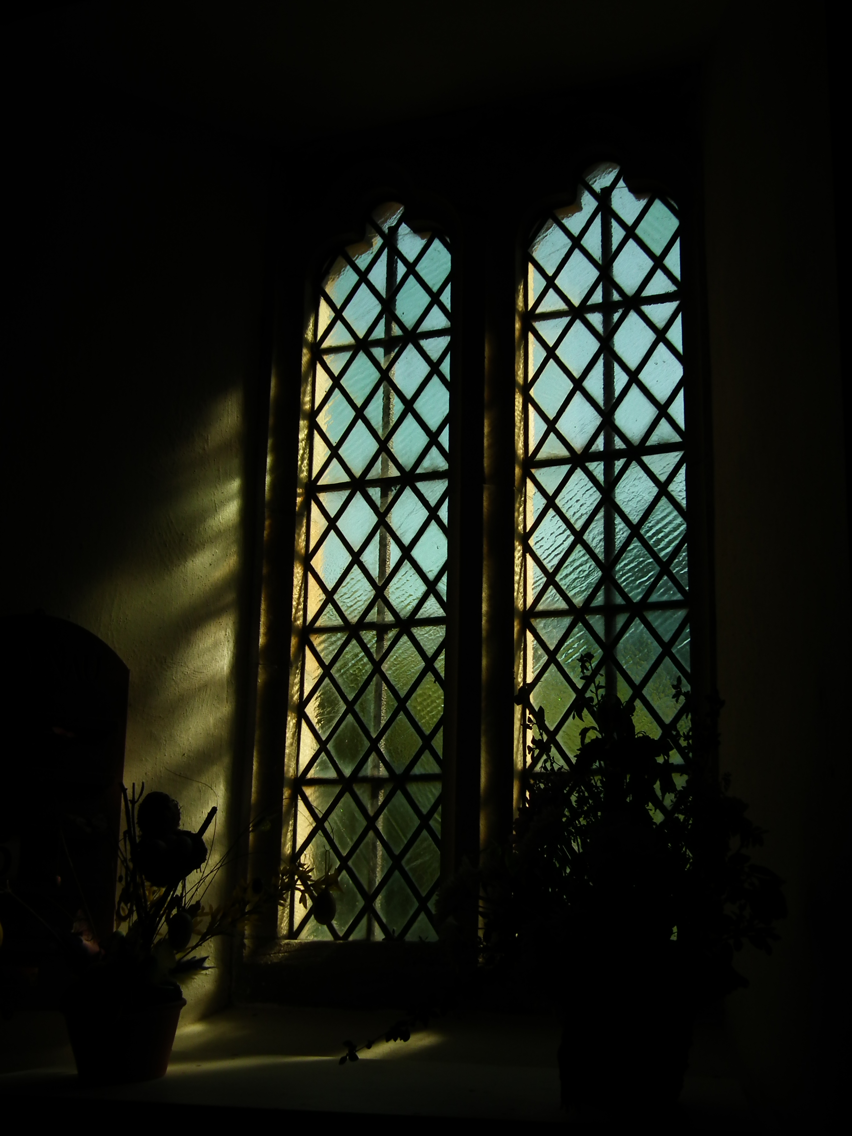 window, St Melangell's church, Powys, Wales